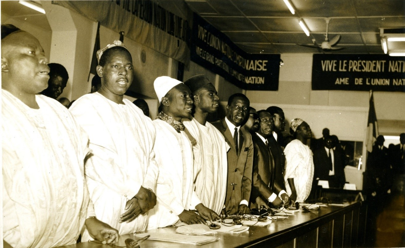 First National Council UNC - 1967